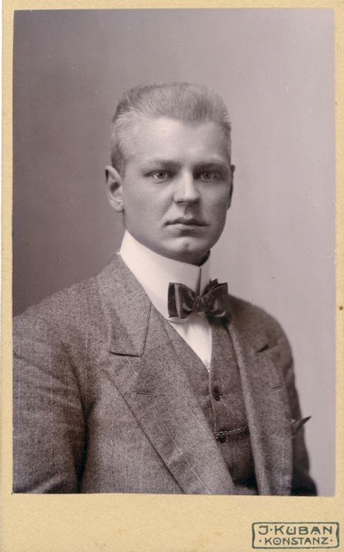 Photograph of the Finnish engineer and businessman Lauri Helenius (1887–1959).